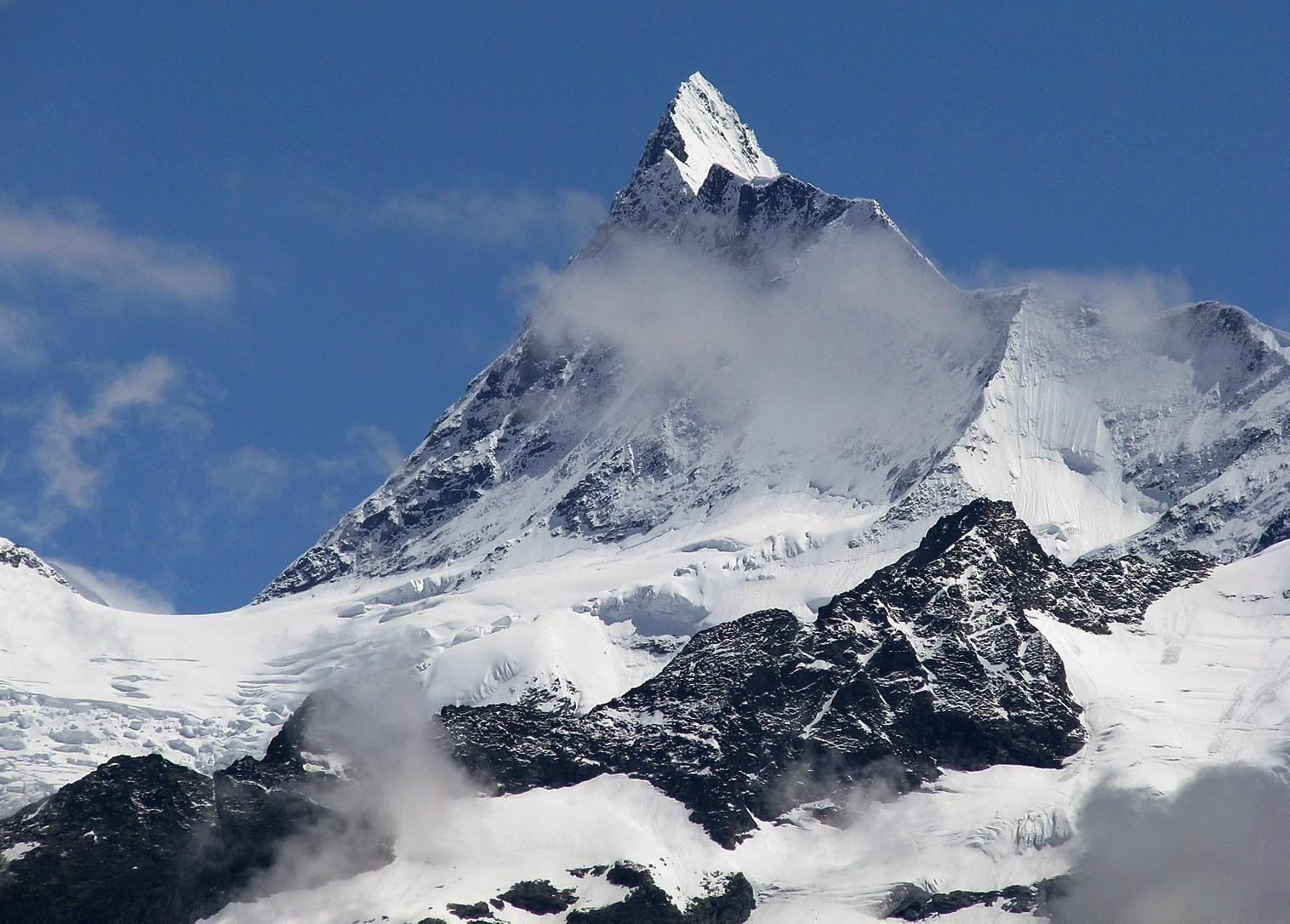 Finsteraarhorn and Finsteraarjoch (pass) on the left.